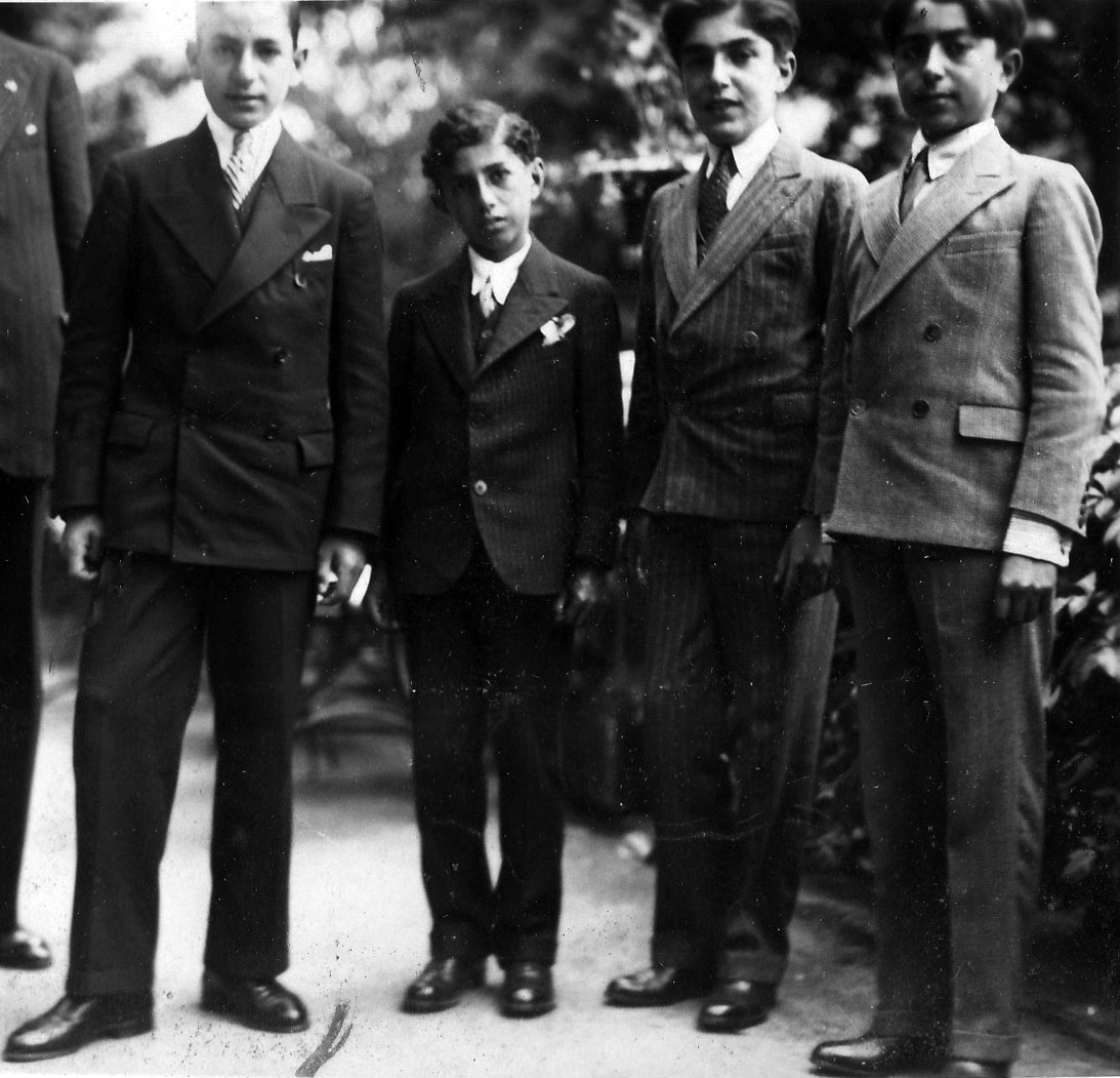 From left to right: Mohammad Reza, Ali Reza, Mehrpour Teymourtash and Hossein Fardoust